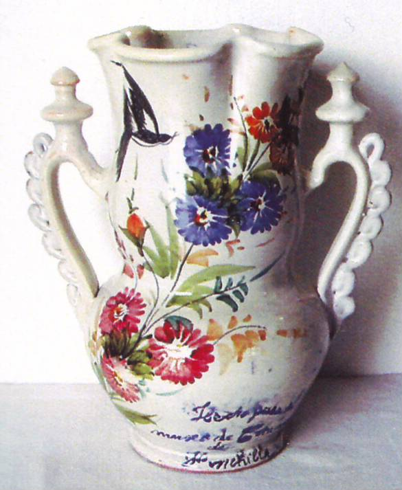 Small jug, also ritual present of compromise that gives the boy to the girl that is getting married. Ancient tradition in Spain. This model is made in Lorca (Murcia) by Fernando Lario. Museum of pottery in Chinchilla de Montearagón.